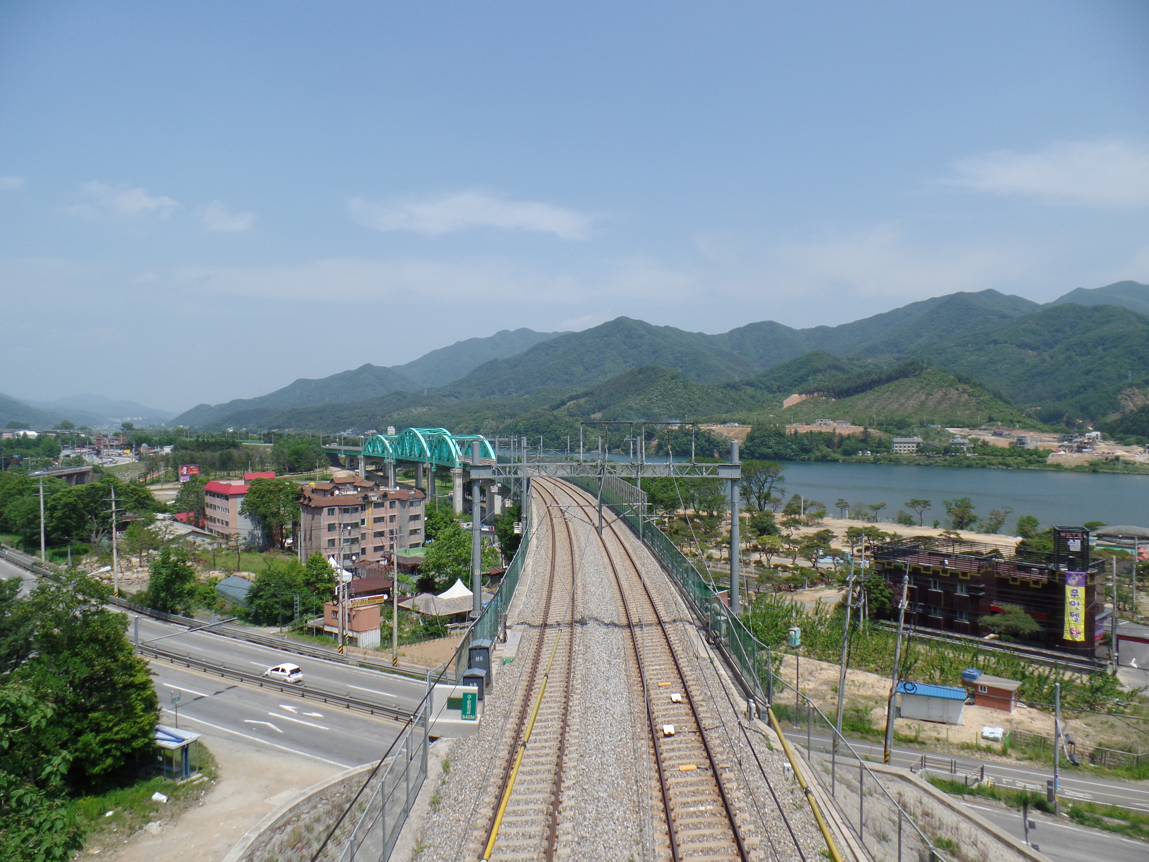 Gyeongchun Line Guuncheon Bridge for Chuncheon(Maseok Station-Daeseong-ri Station)